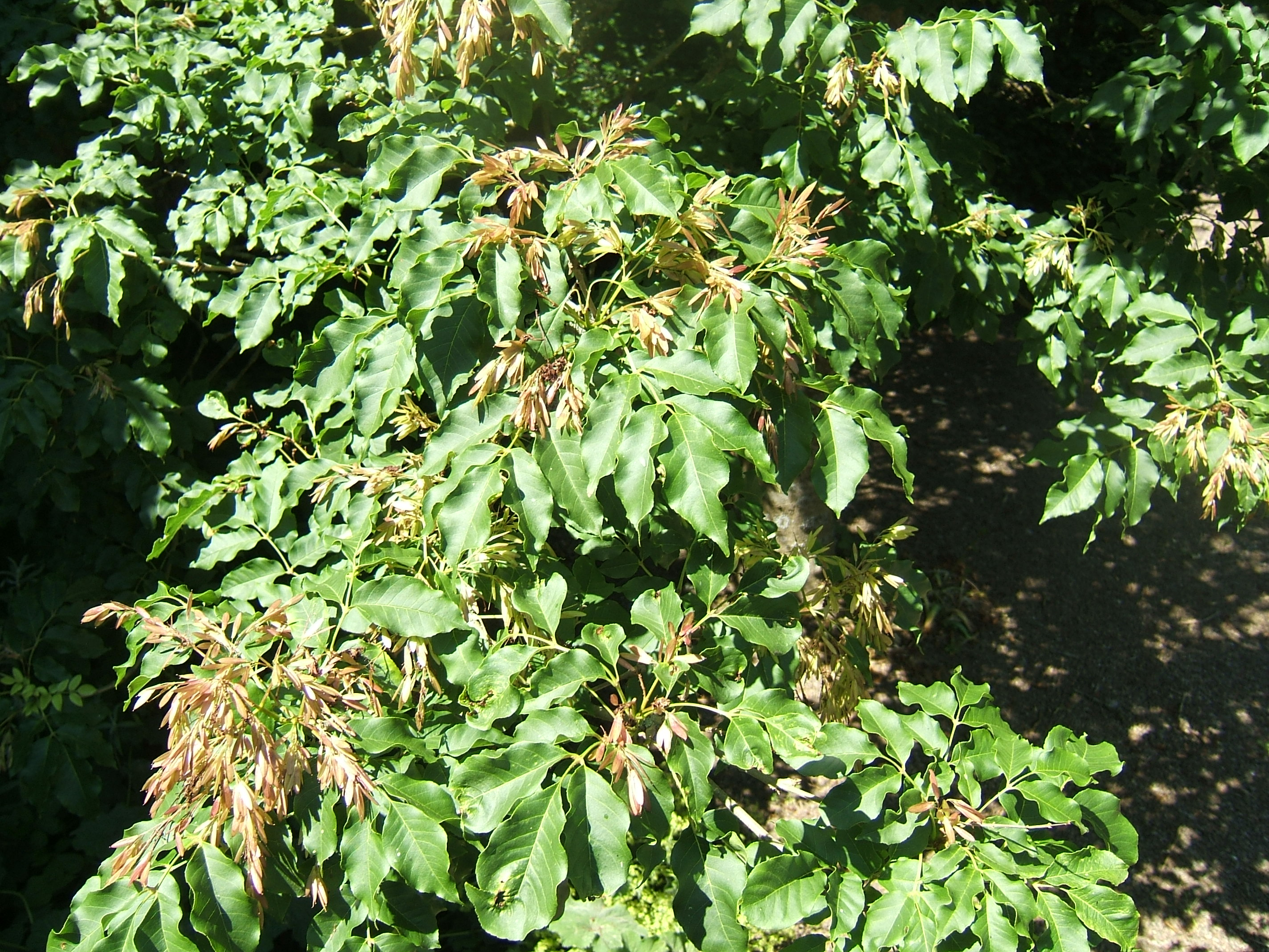 Fraxinus ornus foliage and immature fruit, cultivated, Northumberland, UK; July 2006